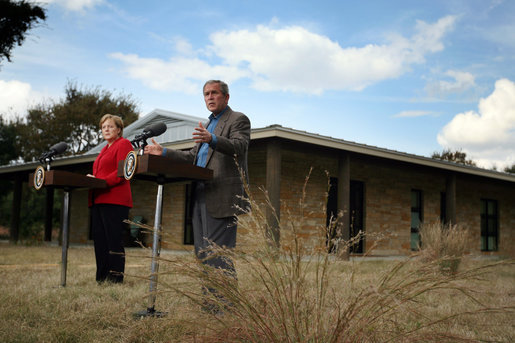 Angela Merkel and George W. Bush outside the Bush residence at the Prairie Chapel Ranch in November 2007. White House photo.